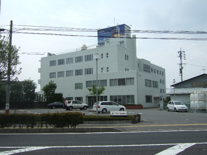 ソラン 信濃事業本部（松本）。長野県松本市。 Matsumoto office of SORUN Corporation in Matsumoto, Nagano, Japan.